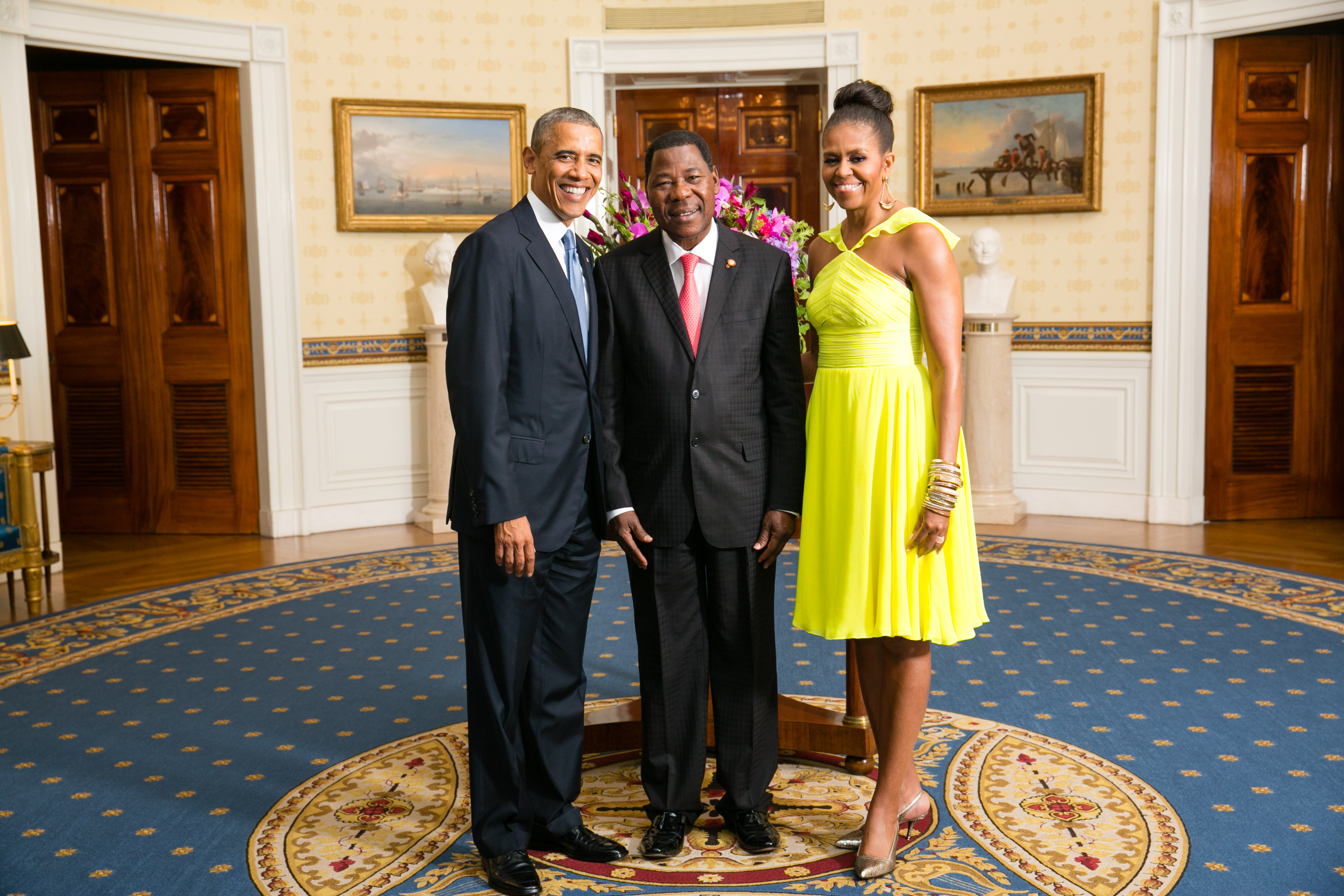 President Barack Obama and First Lady Michelle Obama greet His Excellency Dr. Boni Yayi, President of the Republic of Benin, in the Blue Room during a U.S.-Africa Leaders Summit dinner at the White House, Aug. 5, 2014. [Official White House Photo by Amanda Lucidon] This official White House photograph is in the public domain from a copyright perspective, so while restrictions such as personality or privacy rights may apply, in general, manipulations are allowed.